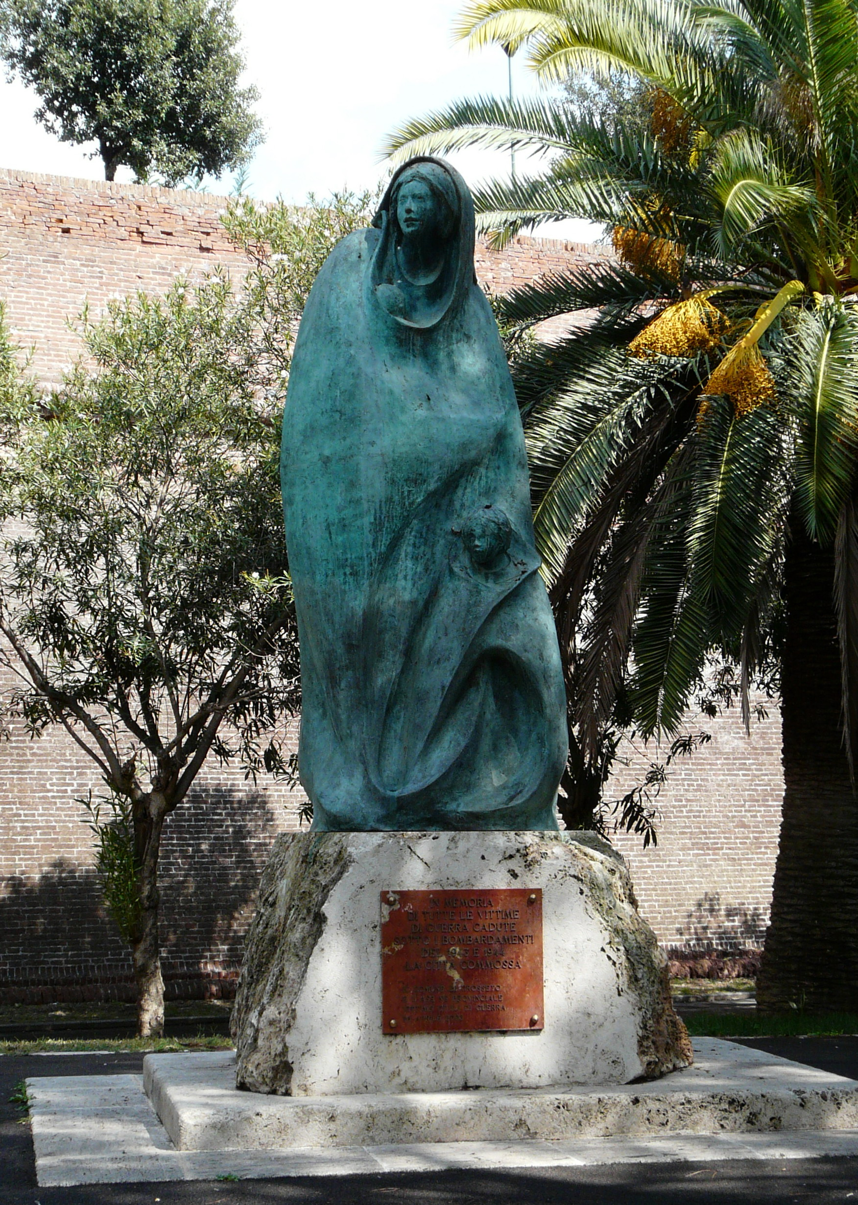 Memorial of Victims Grosseto 1943-1944